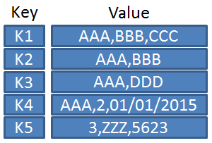 Key Value Concept Illustration